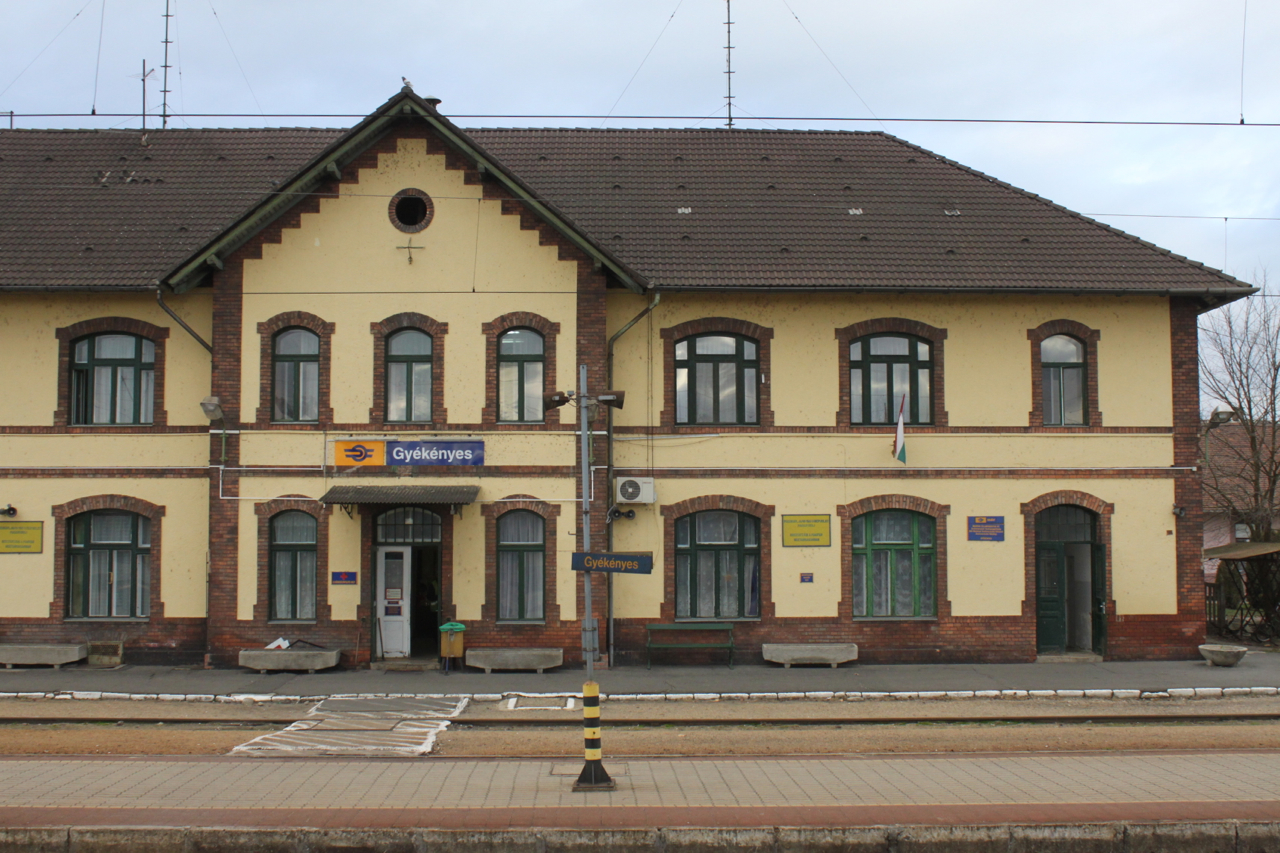 Gyékényes train station.